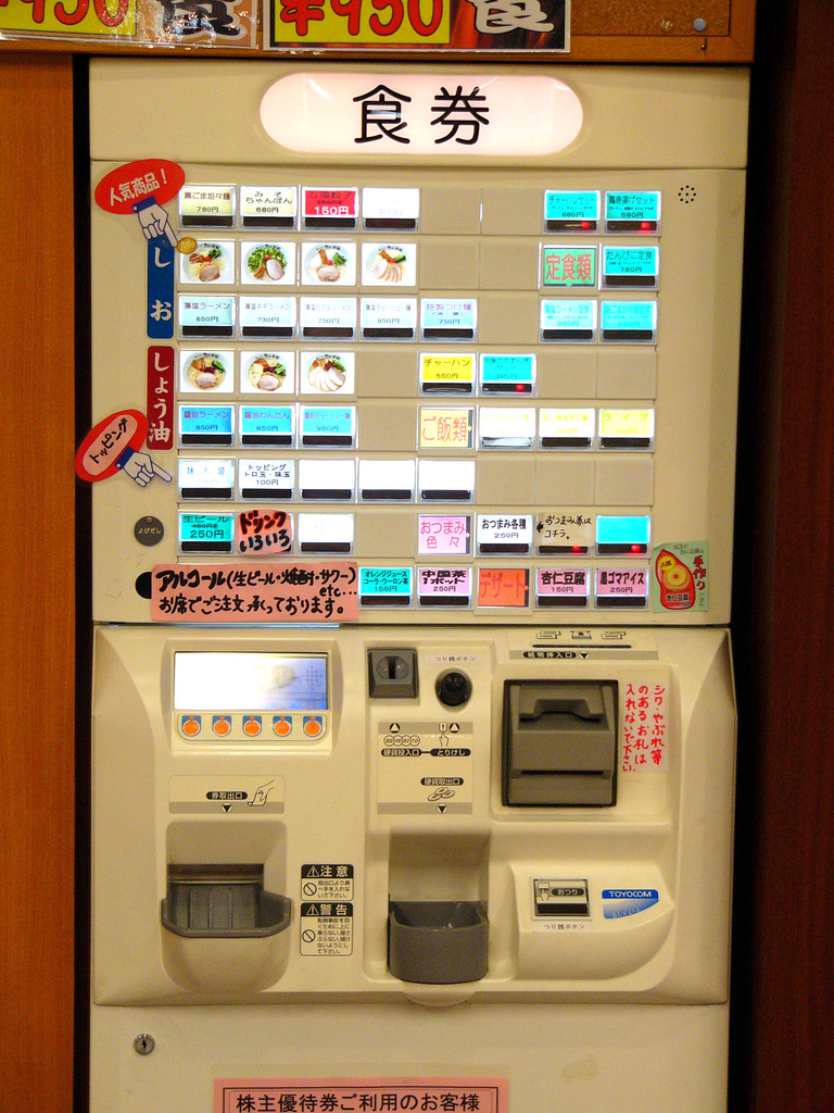 A food ticket vending machine, Hiroshima.